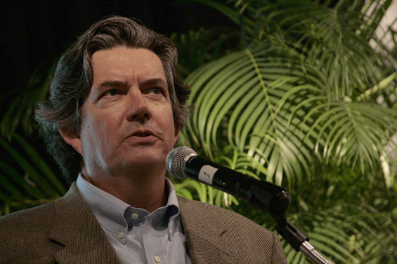 Bob Varsha speaking at the Barber Motorsports Park Legends of Motorsport historic racing event in 2010.